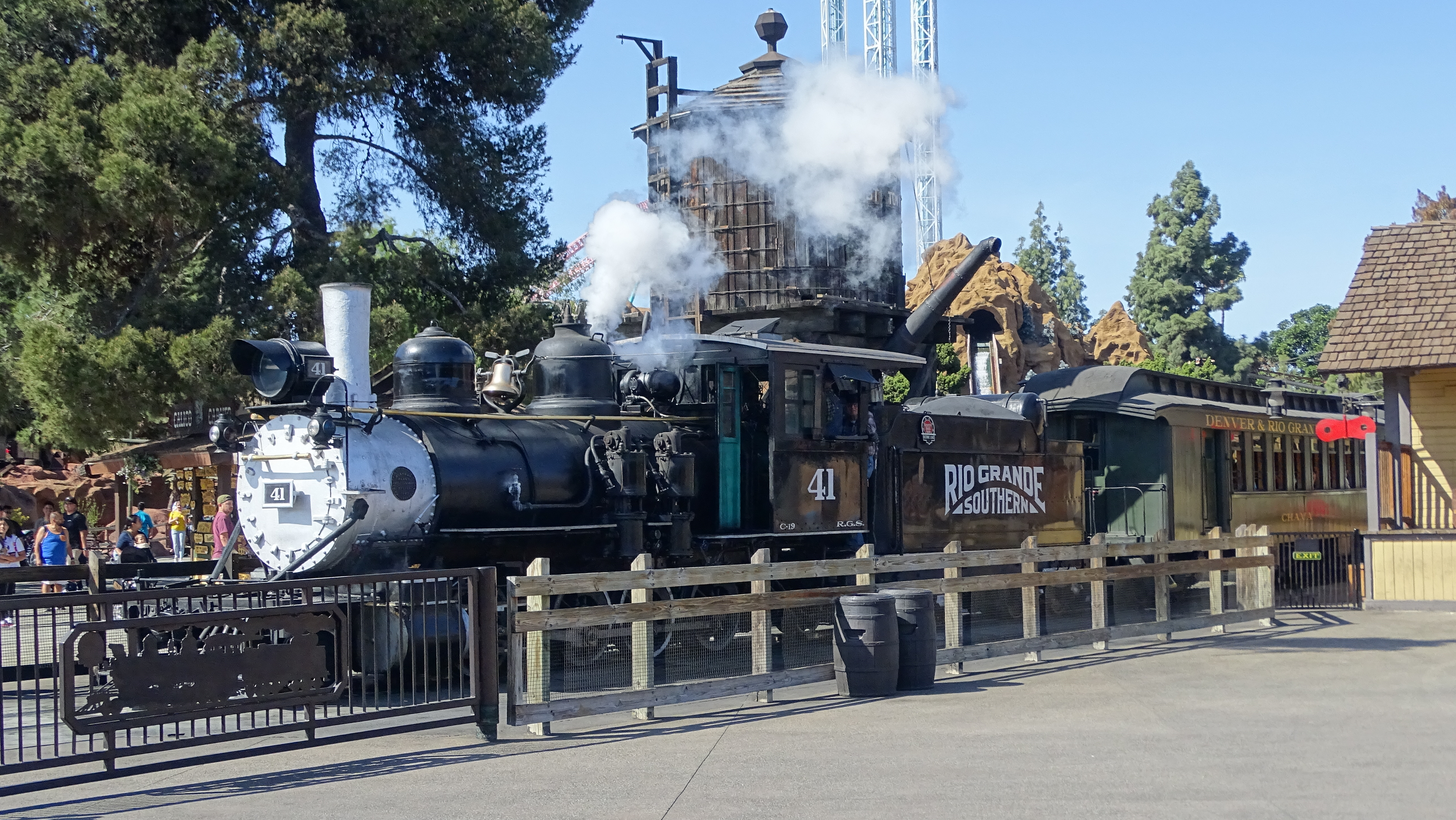 Calico & Ghost Town Railroad departing the station